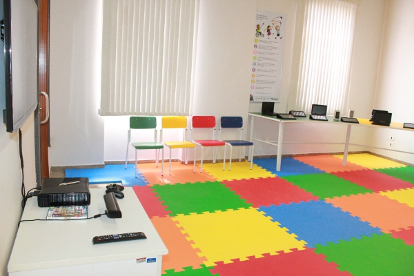 acessa, estação educação